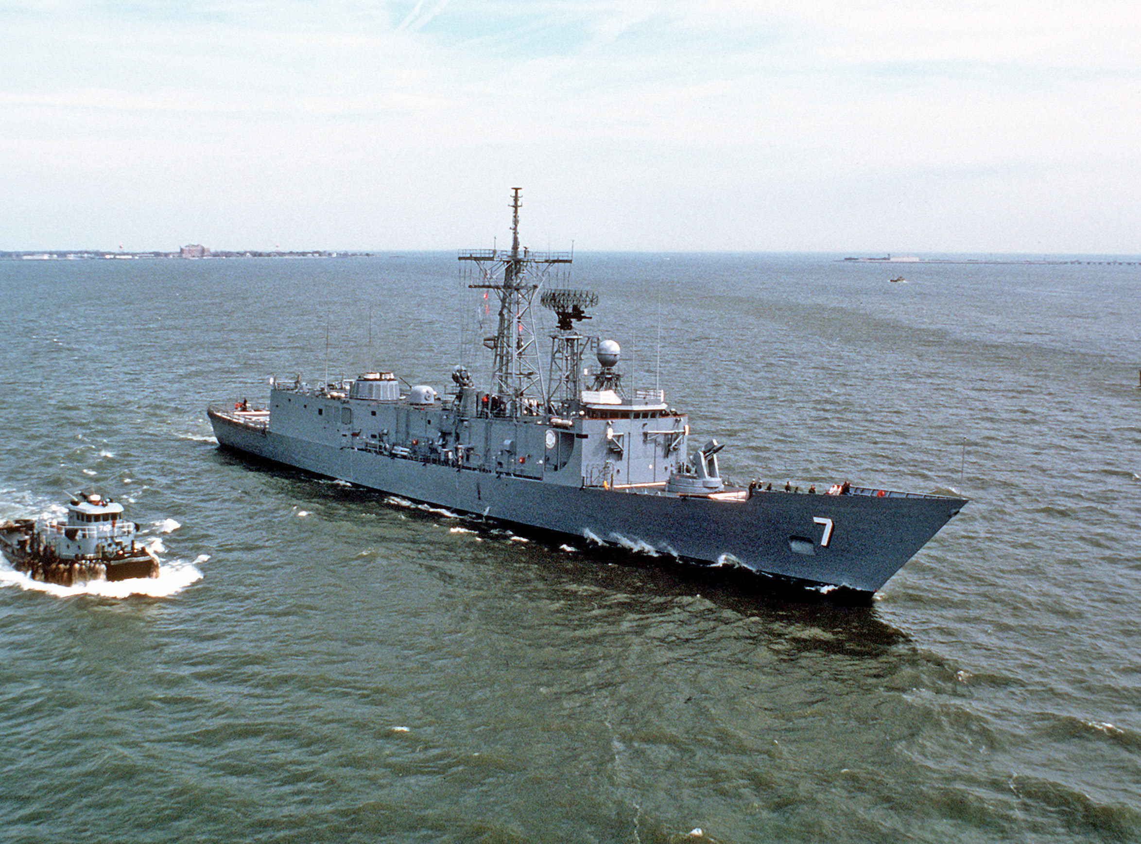 A starboard bow view of the U.S. Navy guided missile frigate USS Oliver Hazard Perry (FFG-7) underway during a Great Lakes cruise on Lake Erie (U.S.).